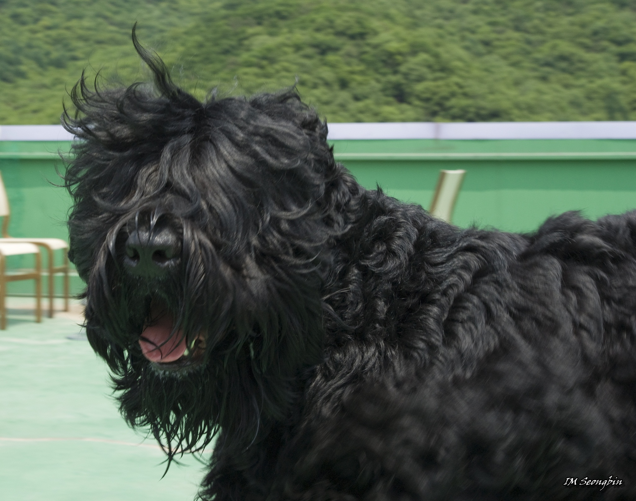 Black Russian Terrier